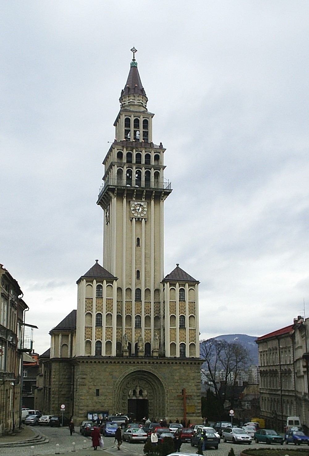 Cathedral of St Nicholas in Bielsko-Biała